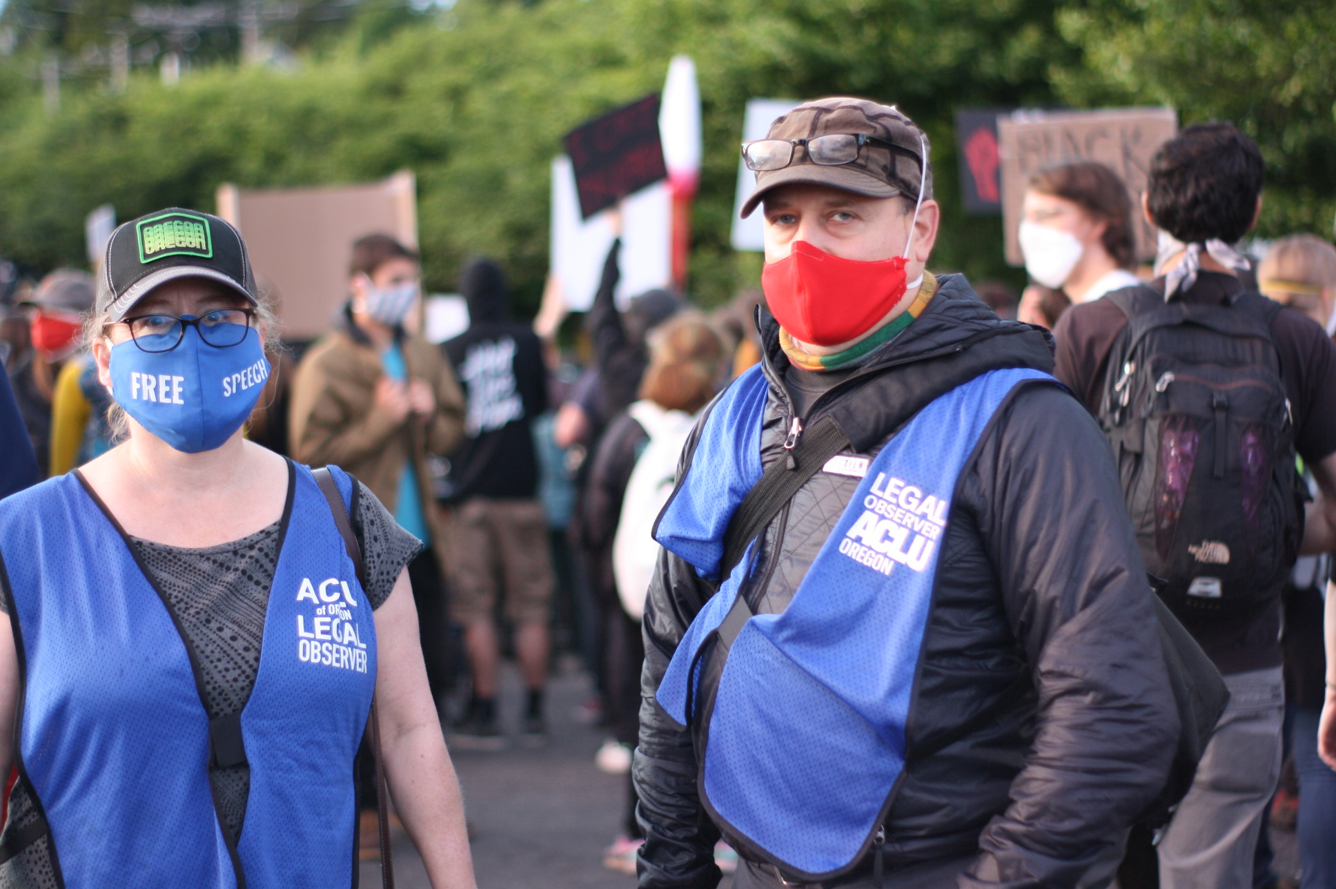 Portland Black Lives Matter protest June 13, 2020